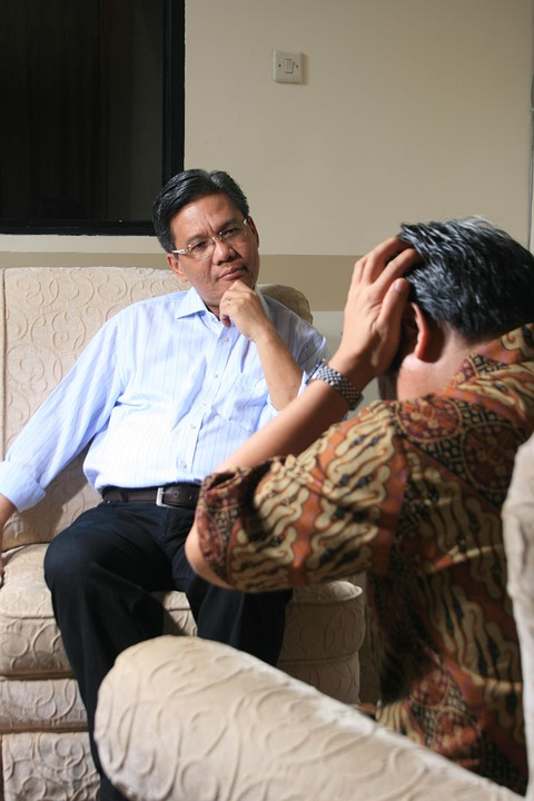 Man talking to therapist